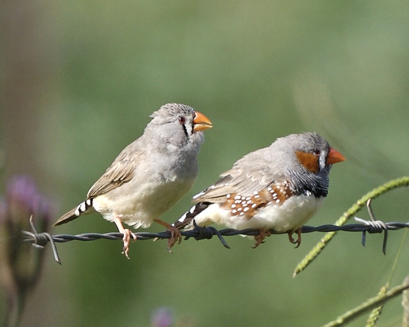 Australian Zebra Finch Taeniopygia guttata castanotis - pair, female on left. Capertee Valley,Blue Mountains, NSW, Australia.